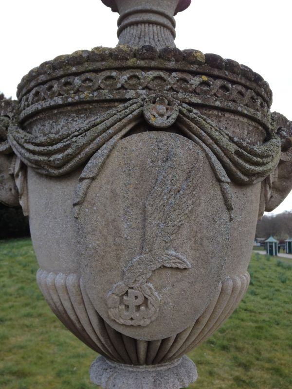 A memorial to the 108 Poles who died in the service stands in the main drive in Audley End House